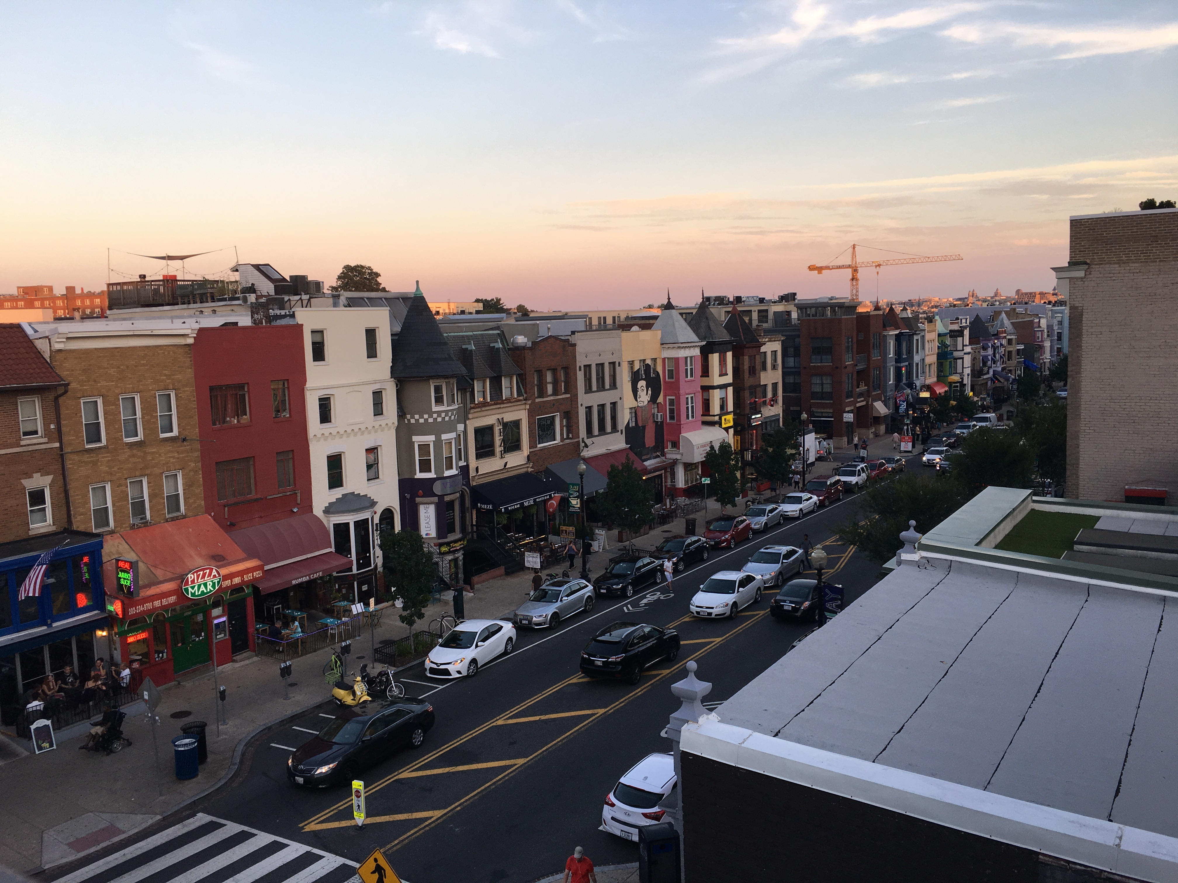 Aerial view of the shops along 18th St (Adams Morgan) in Washington, D.C.